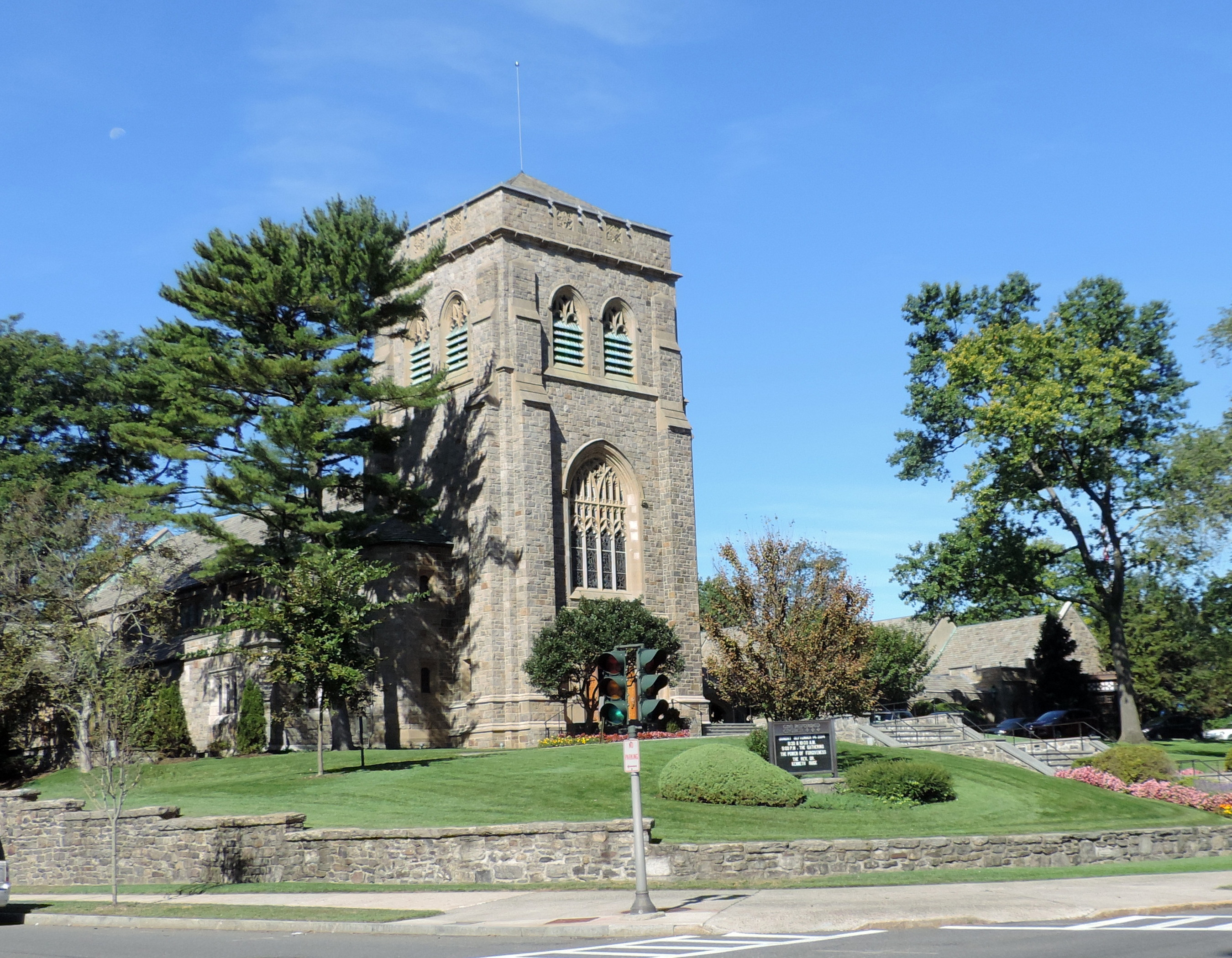 Looking west across Pondfield Road and Midland Avenue at church on a sunny late morning.